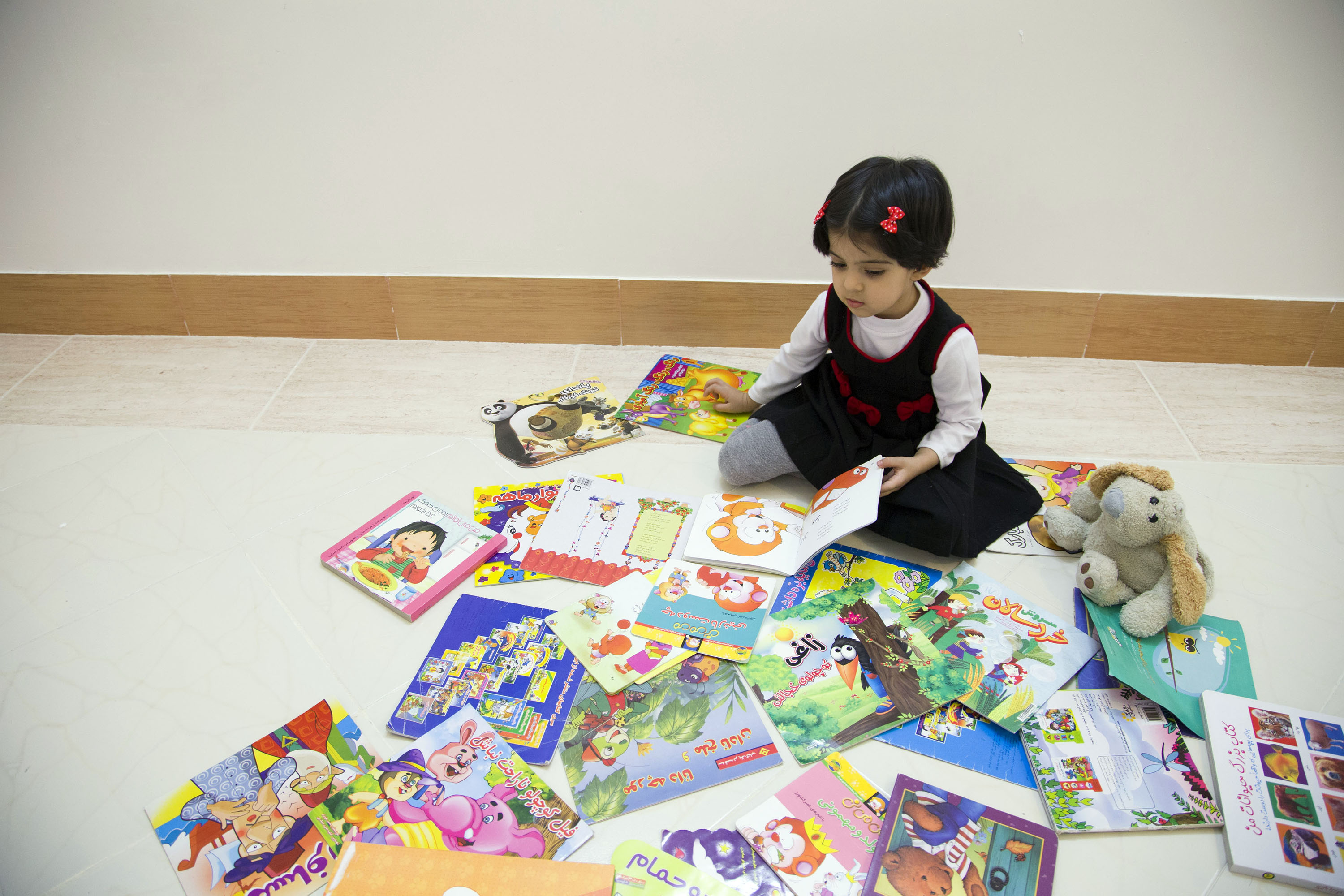 Emotional intelligence (EI), also known as Emotional quotient (EQ) and Emotional Intelligence Quotient (EIQ), is the capability of individuals to recognize their own emotions and those of others, discern between different feelings and label them appropriately, use emotional information to guide thinking and behavior, and manage and/or adjust emotions to adapt to environments or achieve one's goal(s).